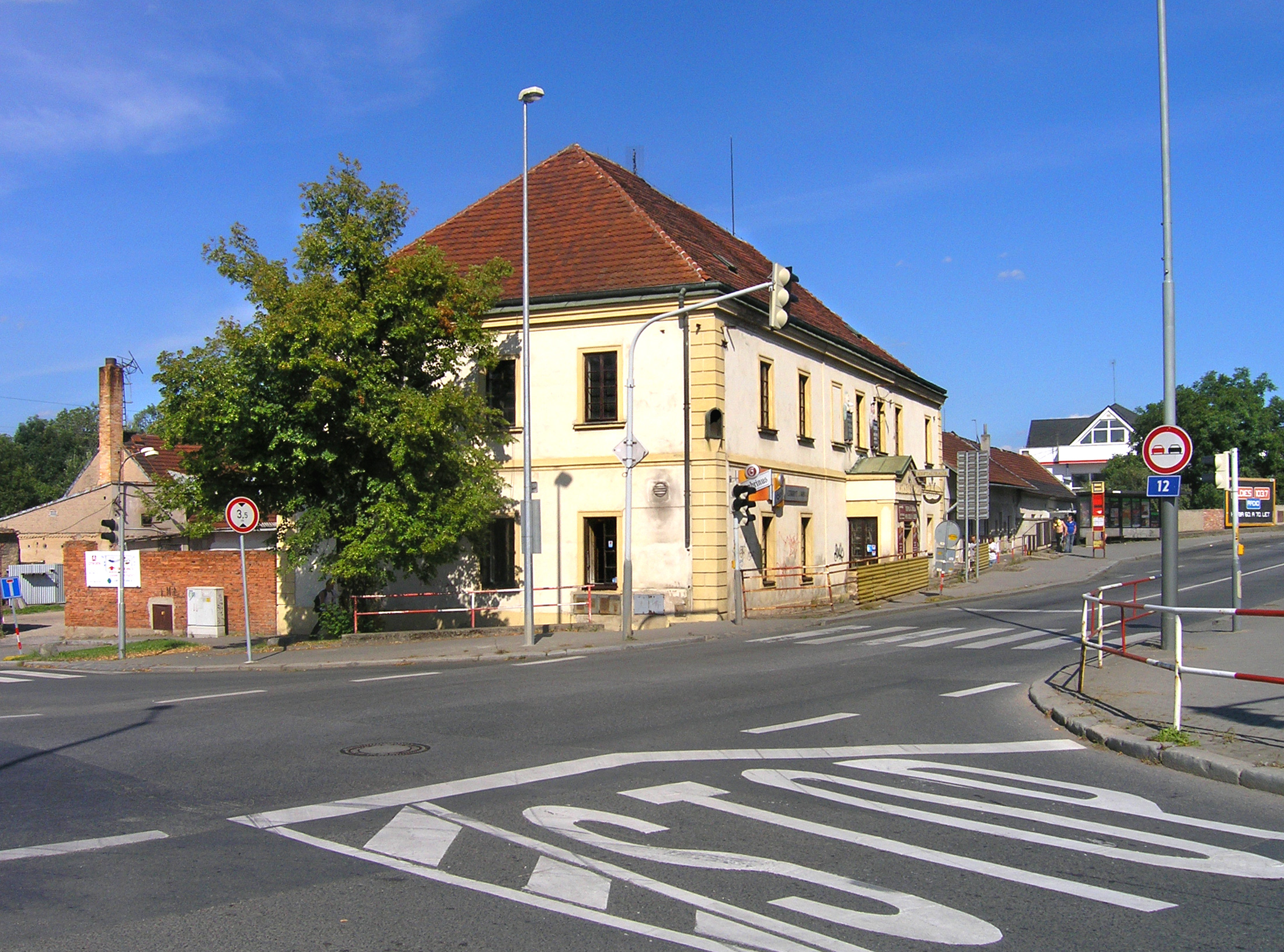 Intersection of Národních hrdinů street with Českobrodská street at Dolní Počernice, Prague